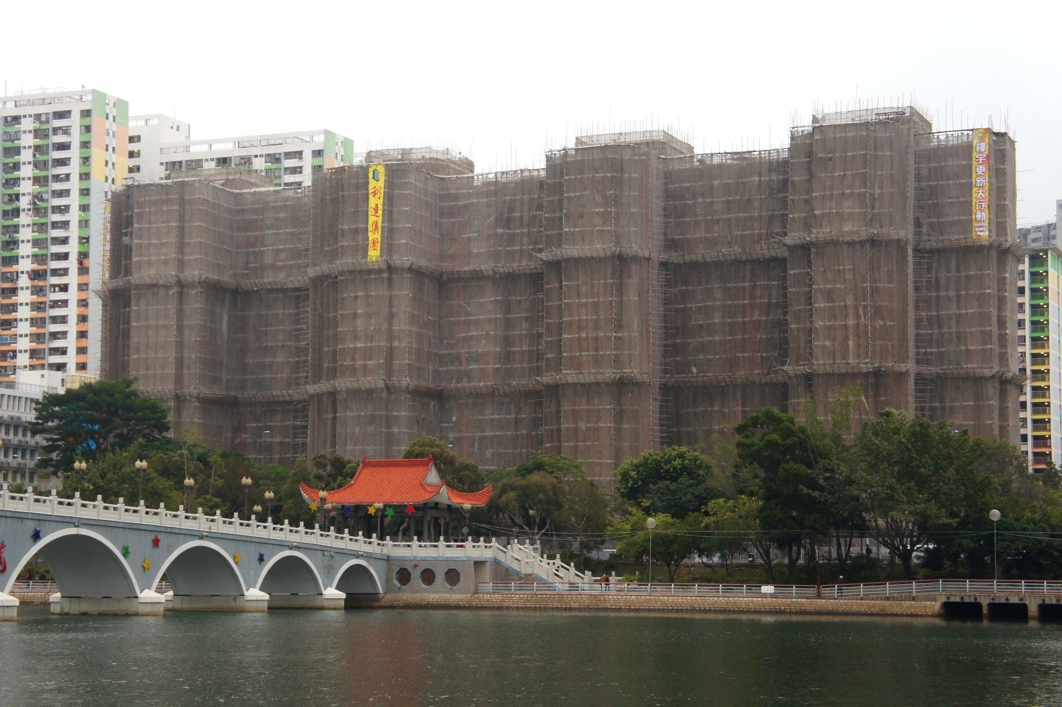 Yue Shing Court, Sha Tin, New Territories, Hong Kong. Undergoing improvement works funded by the "Operation Building Bright" program of the Hong Kong Housing Society.